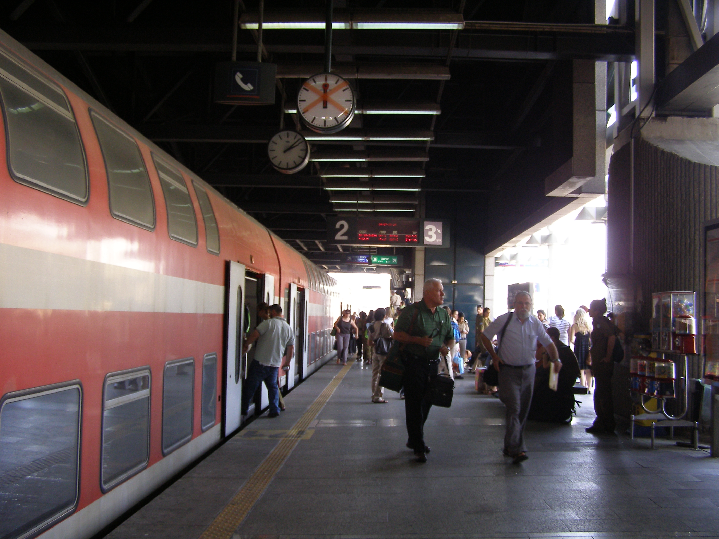 Tel-Aviv Ha Shalom Train Station.